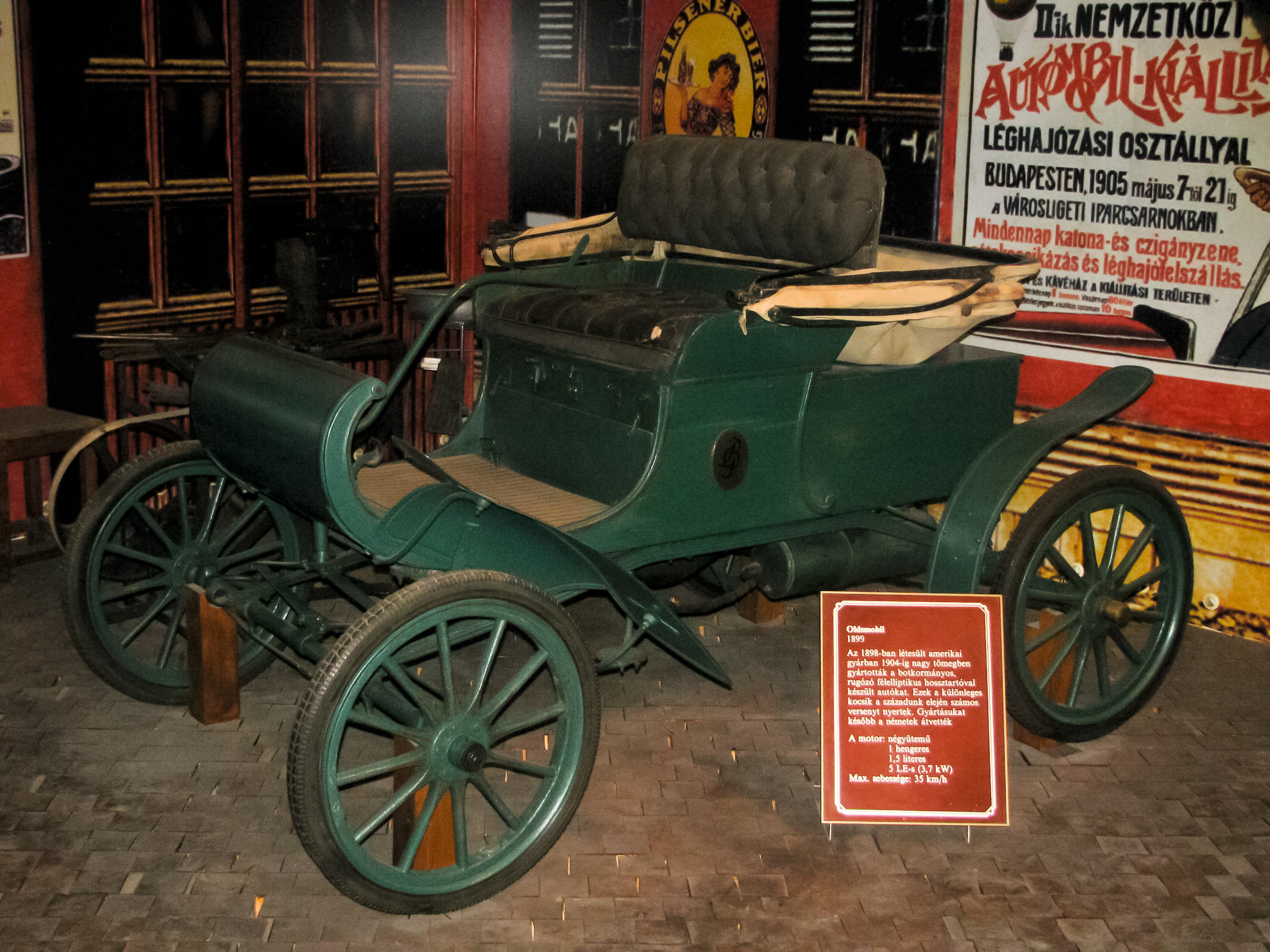 Oldsmobile "Curved Dash" Model R (1901-1903) from in Budapest Transport Museum (the indicated year 1899 is an error). The four-stroke, 1.5-litre single-cylinder engine has a maximum output of ca. 3.7 kW (5 hp). The top speed is 35 km/h.